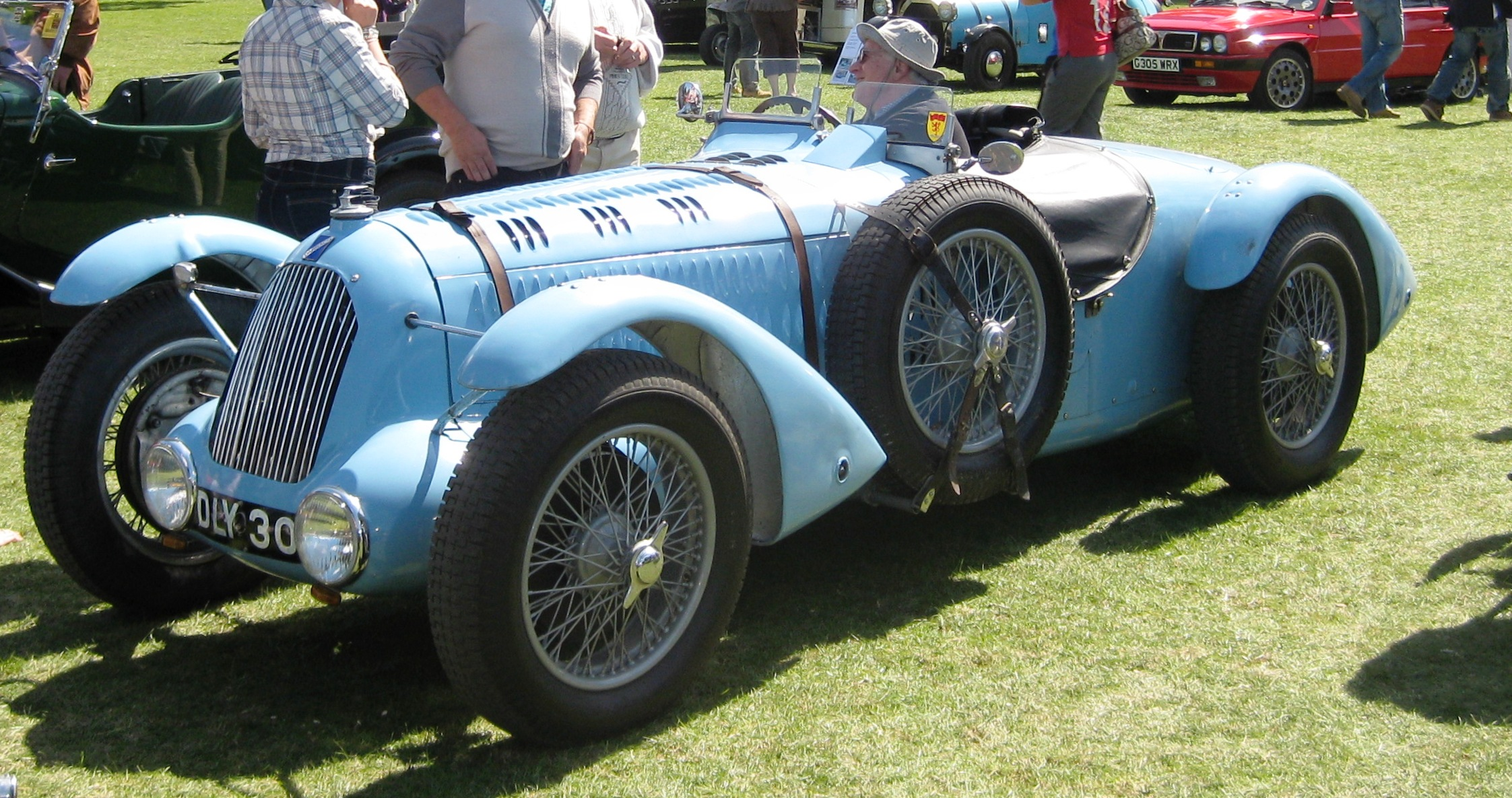 1936 Darracq-badged Talbot T150Cat Woburn Classic Car Show May 2011